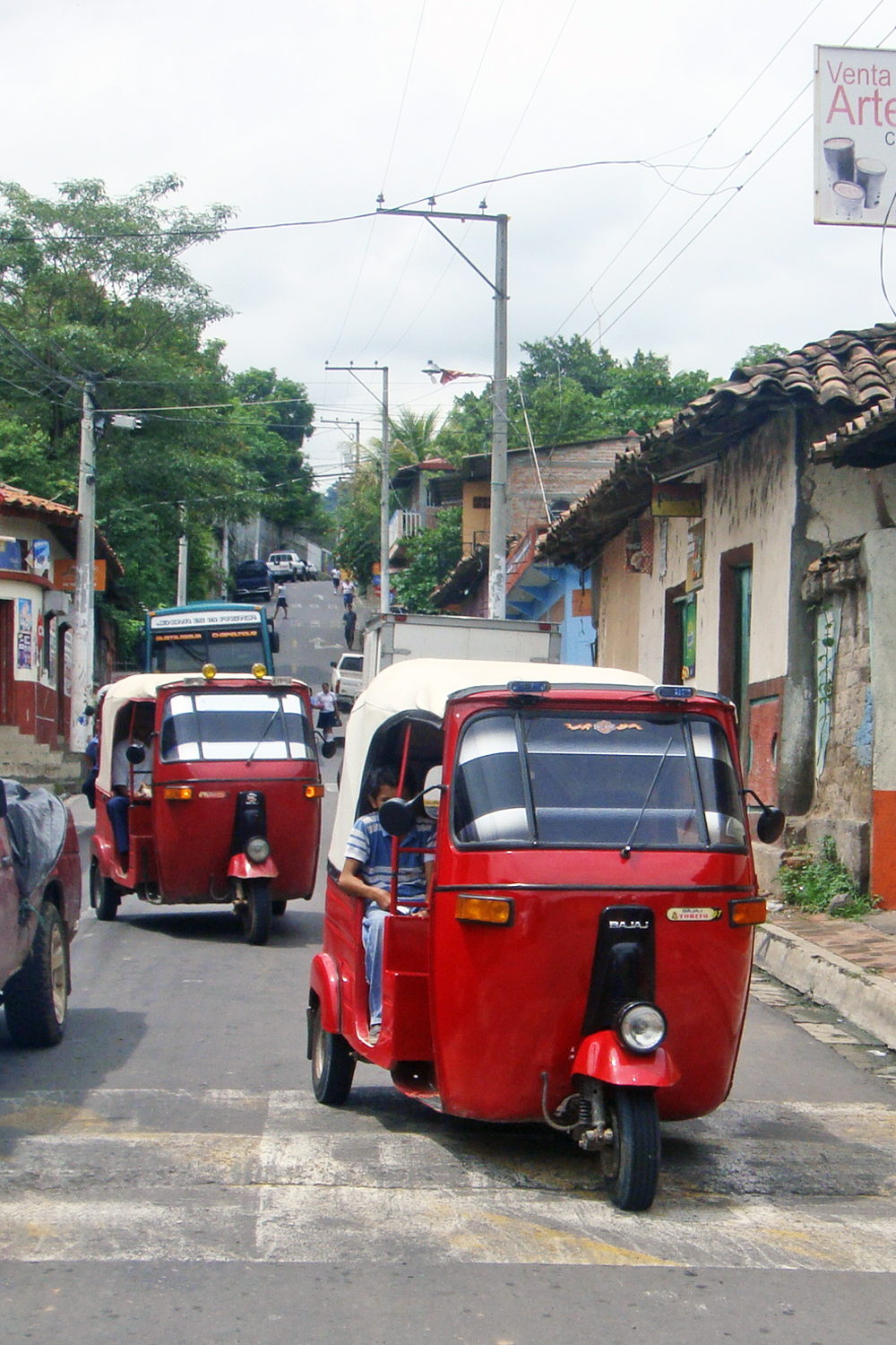 Bajaj mototaxi in El Salvador